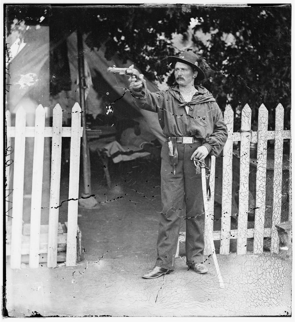 Capt. Schwartz, sharpshooter, 39th New York Regiment (Garibaldi Guard).